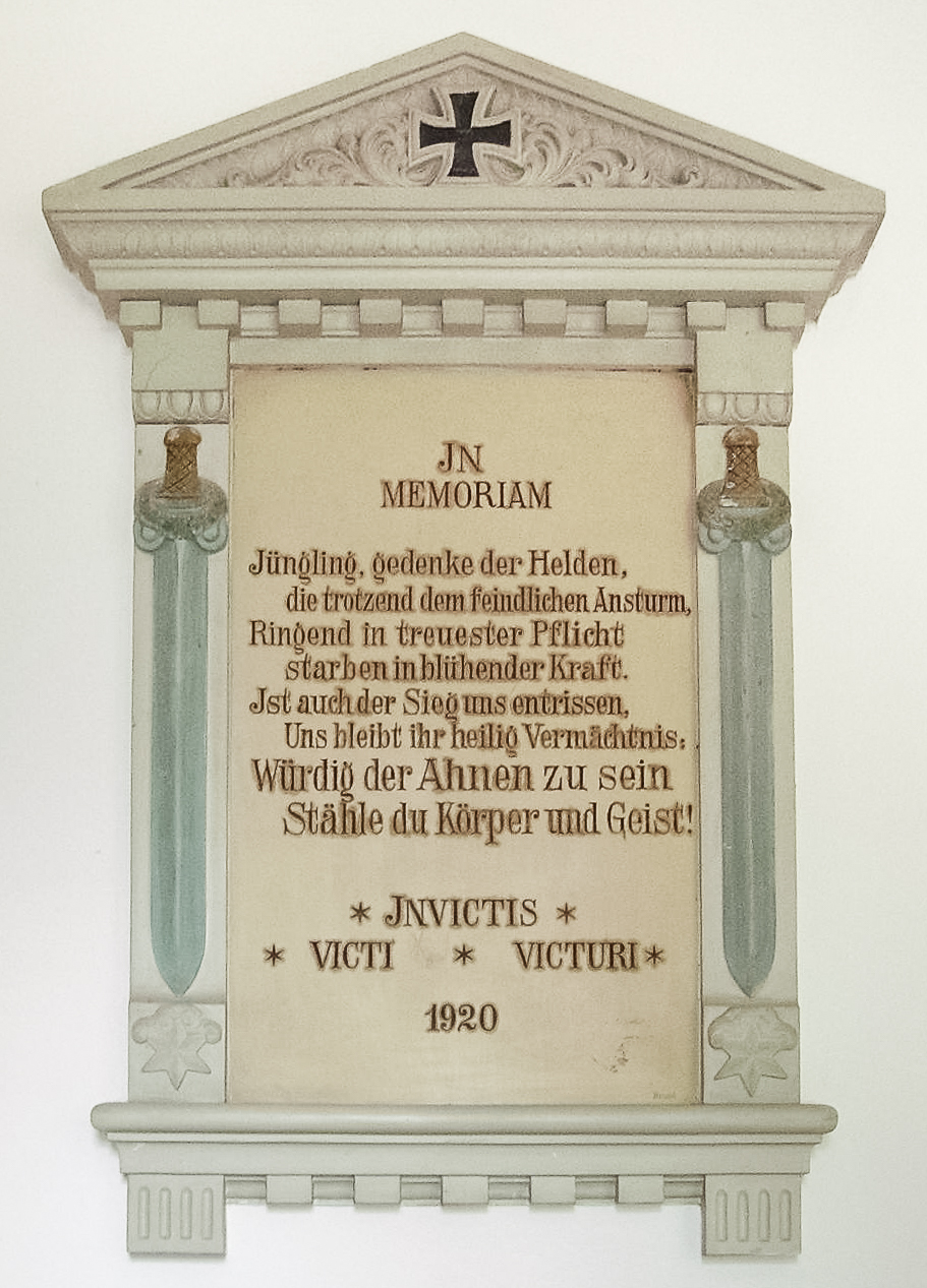 Latin inscription in Bamberg, Germany